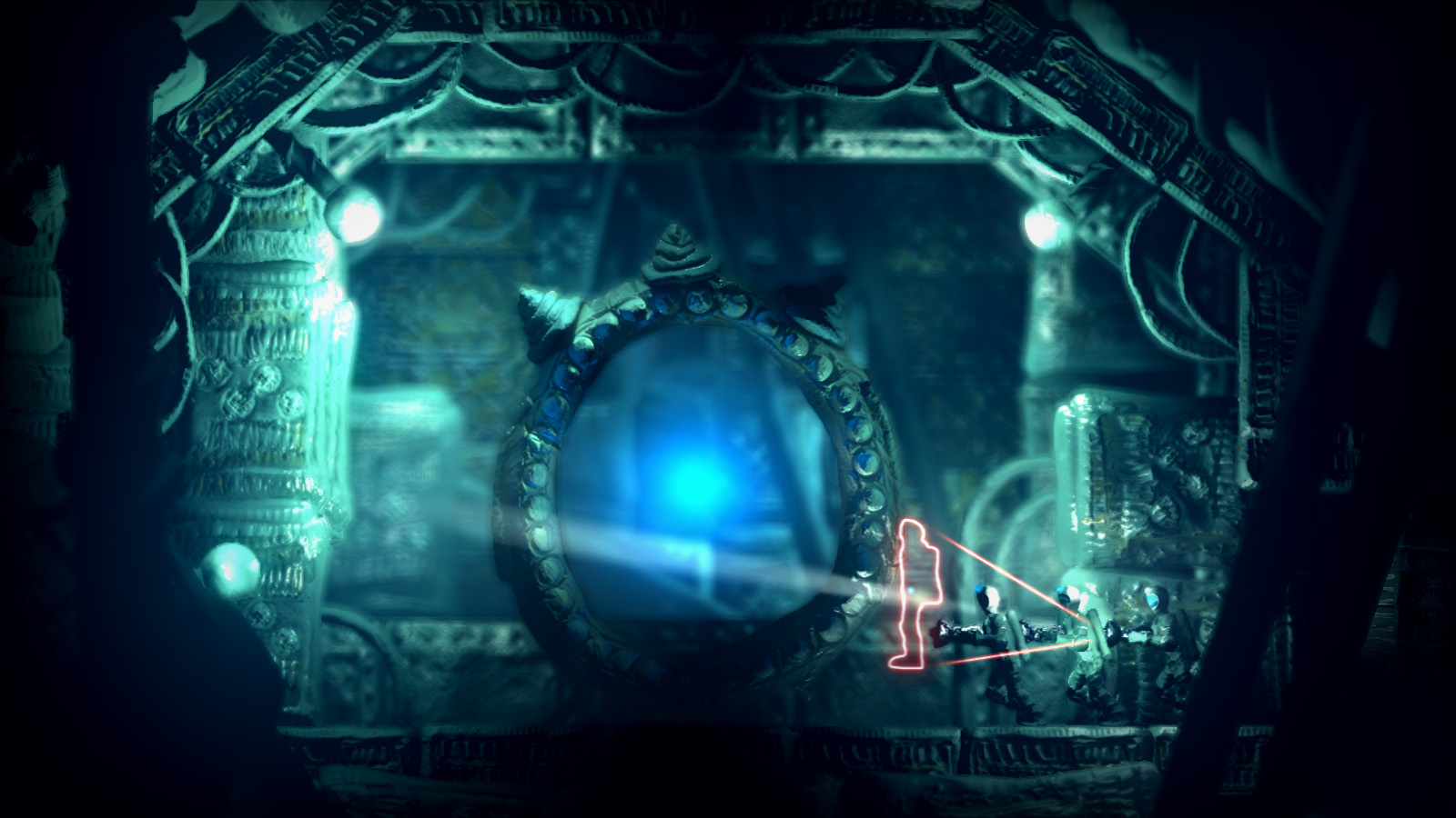 The Swapper screenshot. Released in 2013, the game was developed by Facepalm Games.